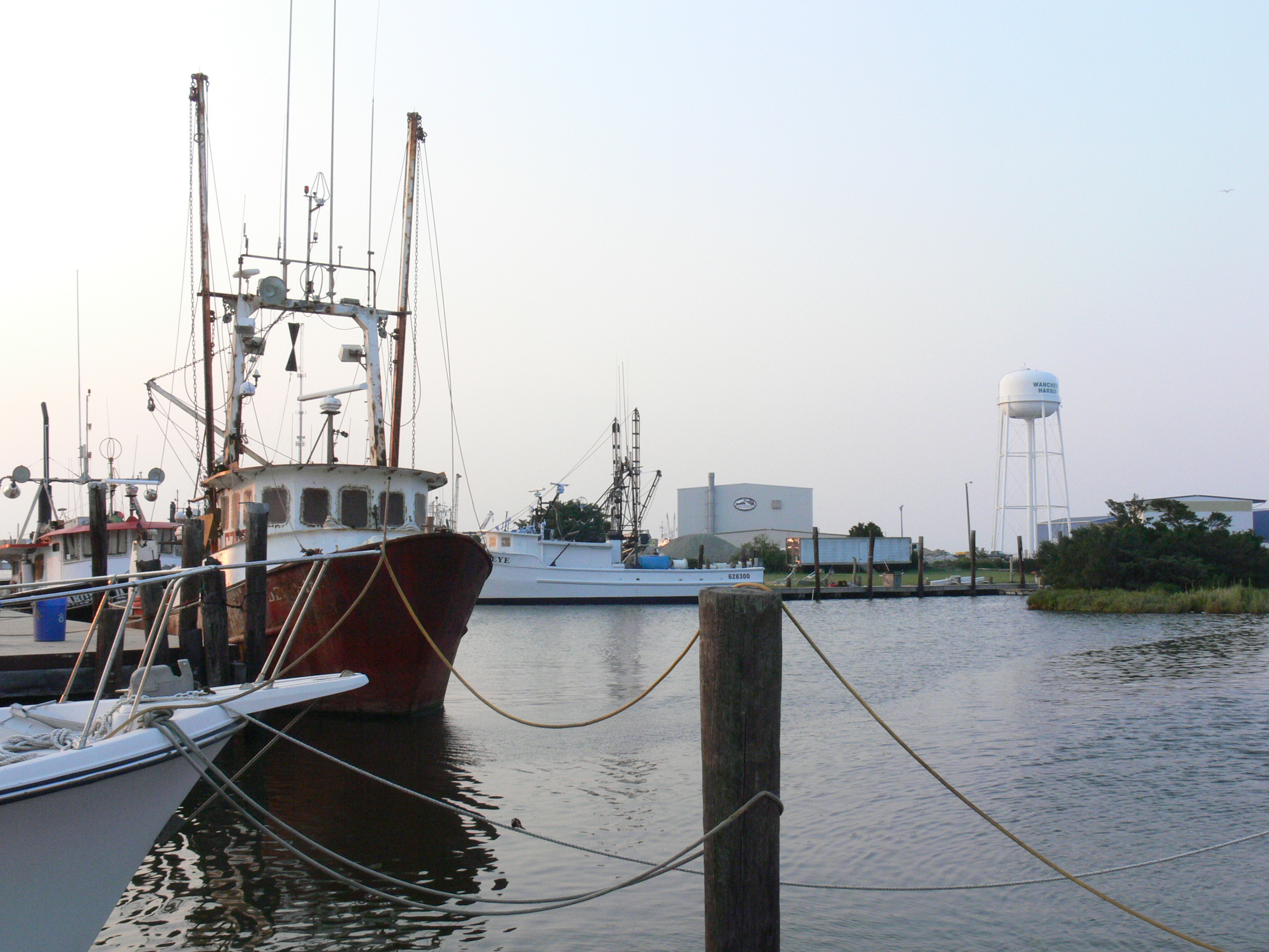 Boats at the entrance to Wanchese Harbor, Dare County, North Carolina